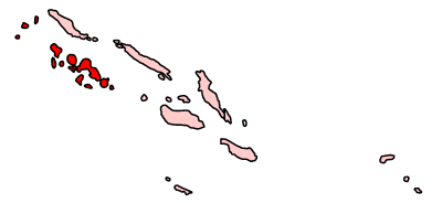 Map of the Solomon Islands showing Western province. Made by User:Golbez.